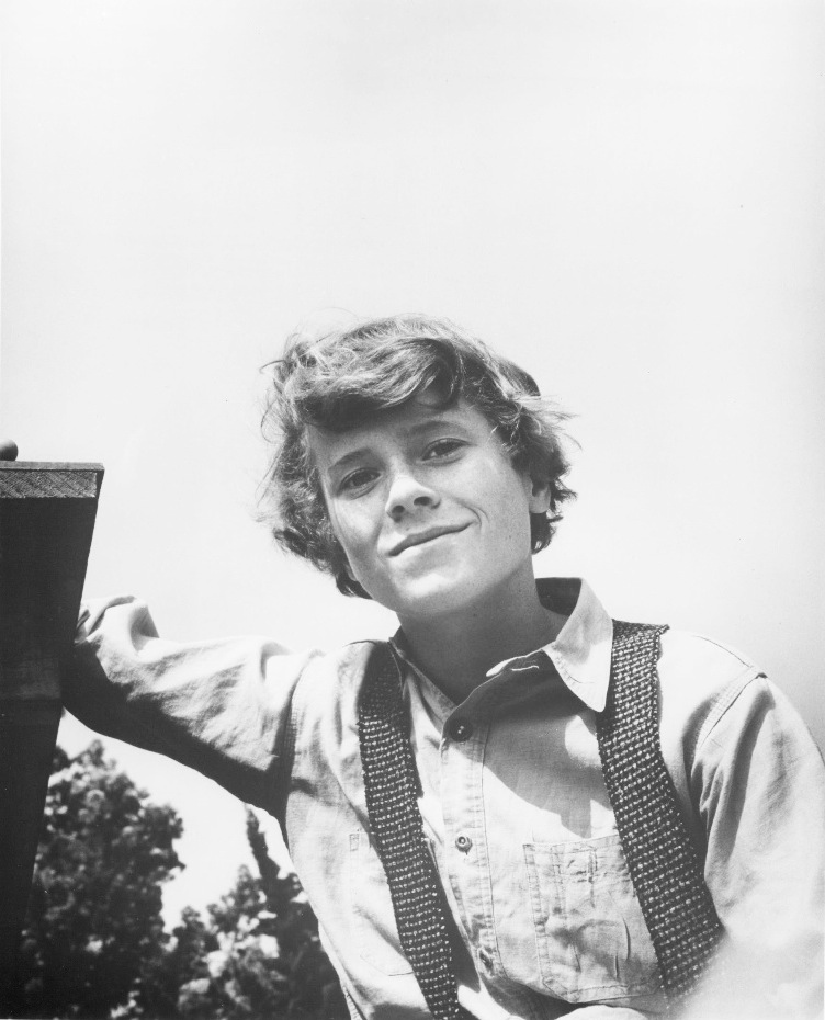 Advance publicity photo of American teen actor, Jeff East promoting his role as Huckleberry Finn in the 1973 United Artists feature film Tom Sawyer.